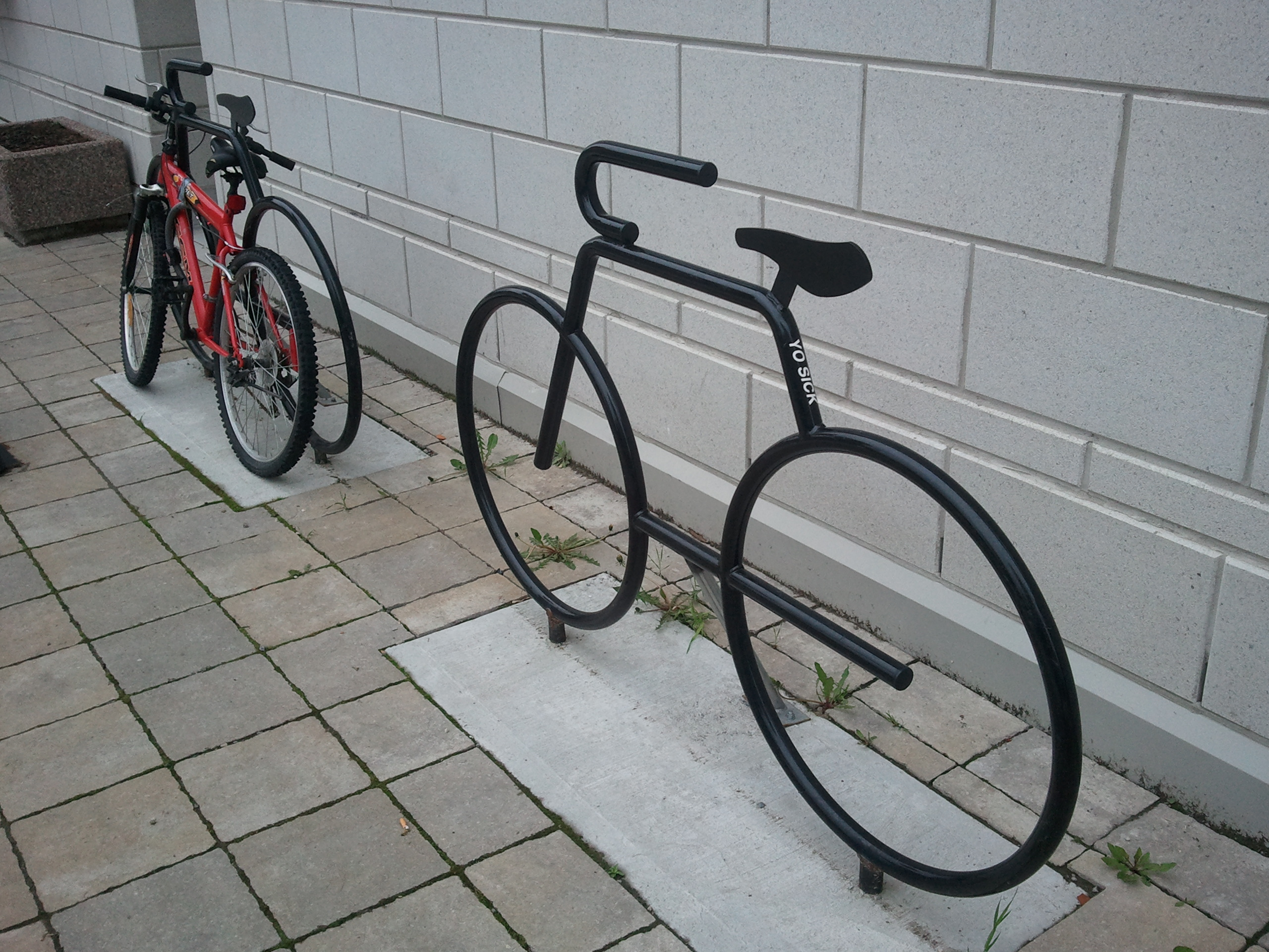 Bicycle racks in Ottawa, Ontario, Canada, one of which has graffiti that says "Yo sick!"